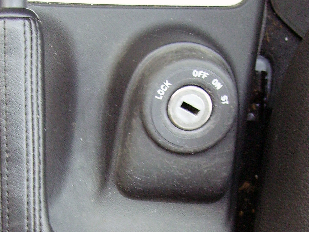 Ignition switch